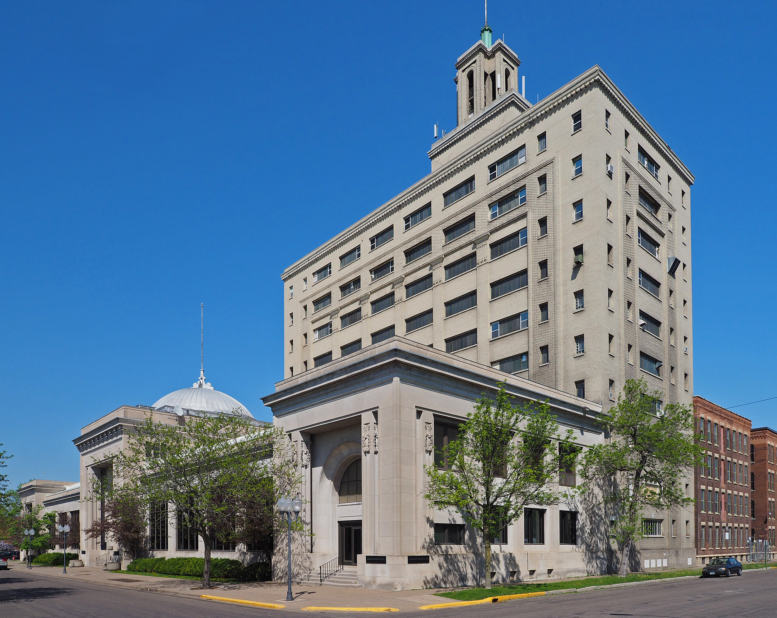 J.R. Watkins Headquarters, 150 Liberty St, Winona, Minnesota, USA. Viewed from the southwest.